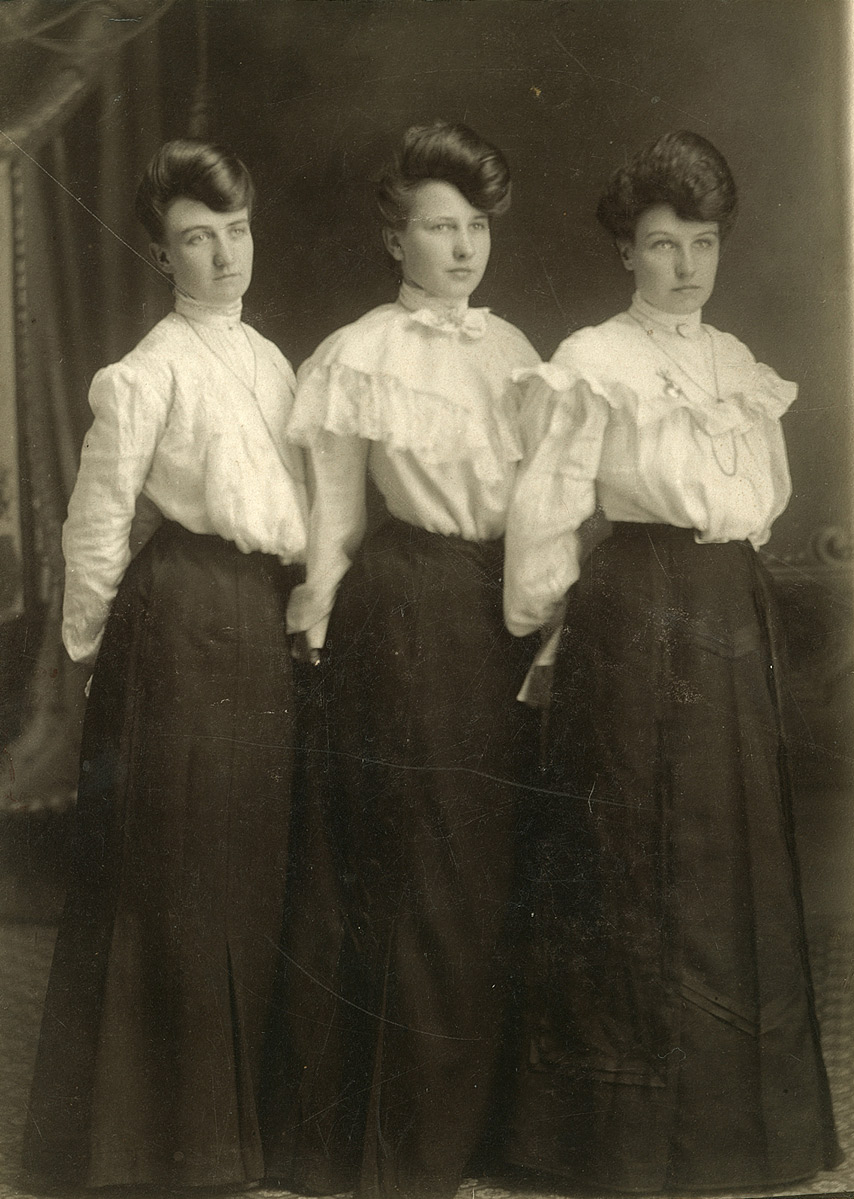 Portrait of 3 sisters from the Spencer family.